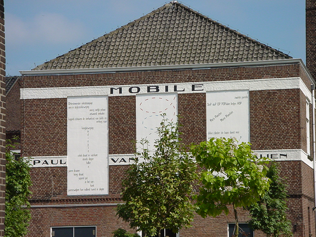 Wallpoem in de city of Leiden in the Netherlands.